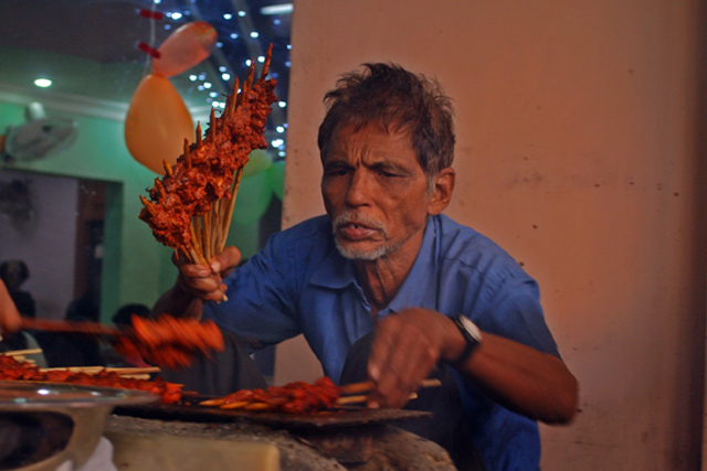 Kathi Kabab, Nizam, Kolkata